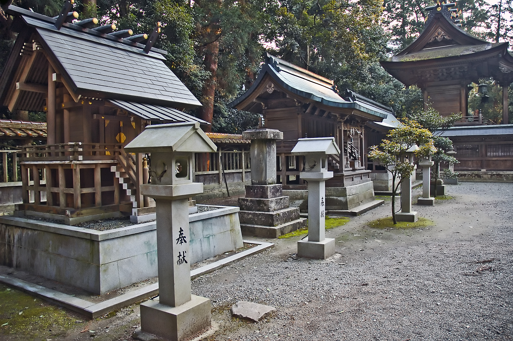 the attached shrines